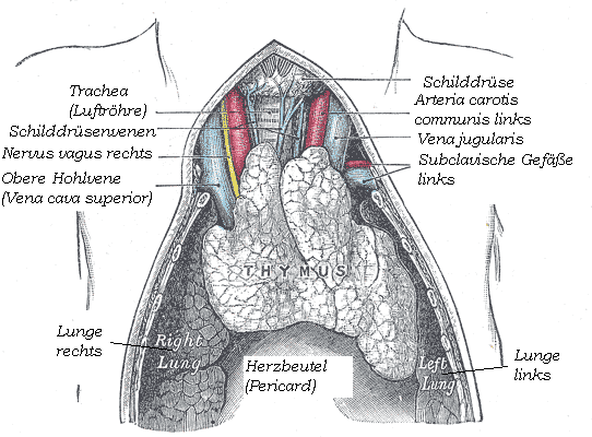 The thymus and its adjacent structures Thymus